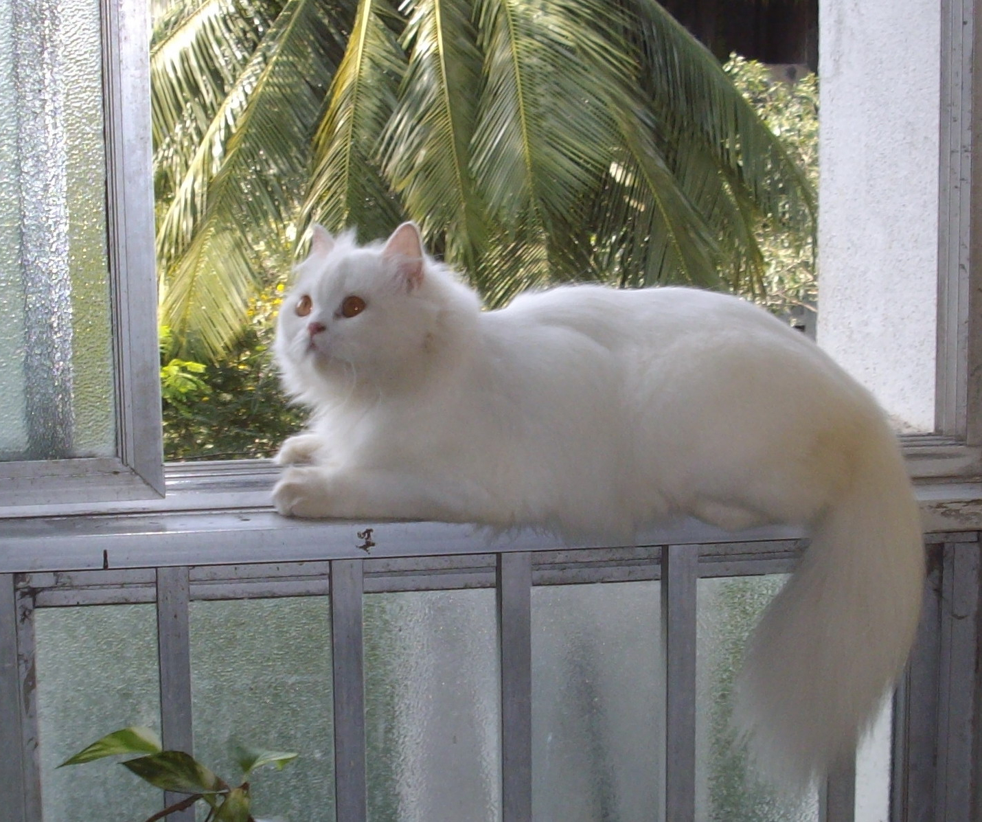 Cat Matahari,owner Rudolph.a.Furtado, aged 1 year 4 months, balancing on the house balcony from the 5th floor in Mumbai. Cropped version of original.